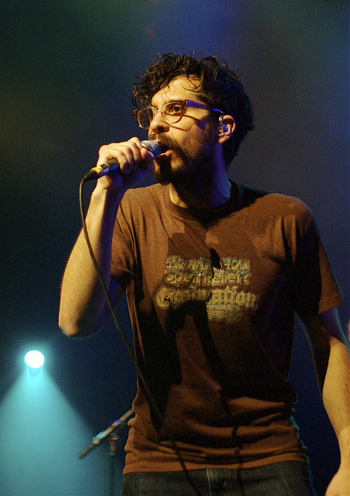 Yoni Wolf, singer of WHY?, during their concert at the Botanique in Brussels. Larger version on Flickr